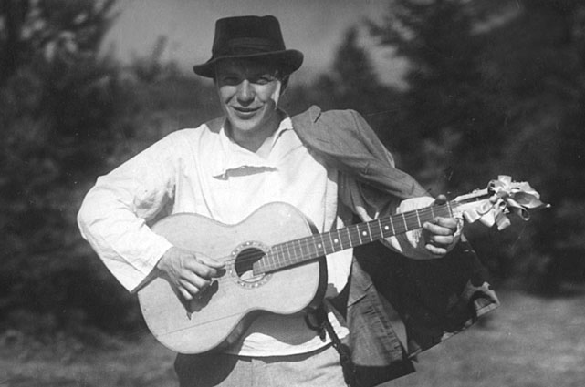 Boris Chirkov as Maxim in film The Youth of Maxim